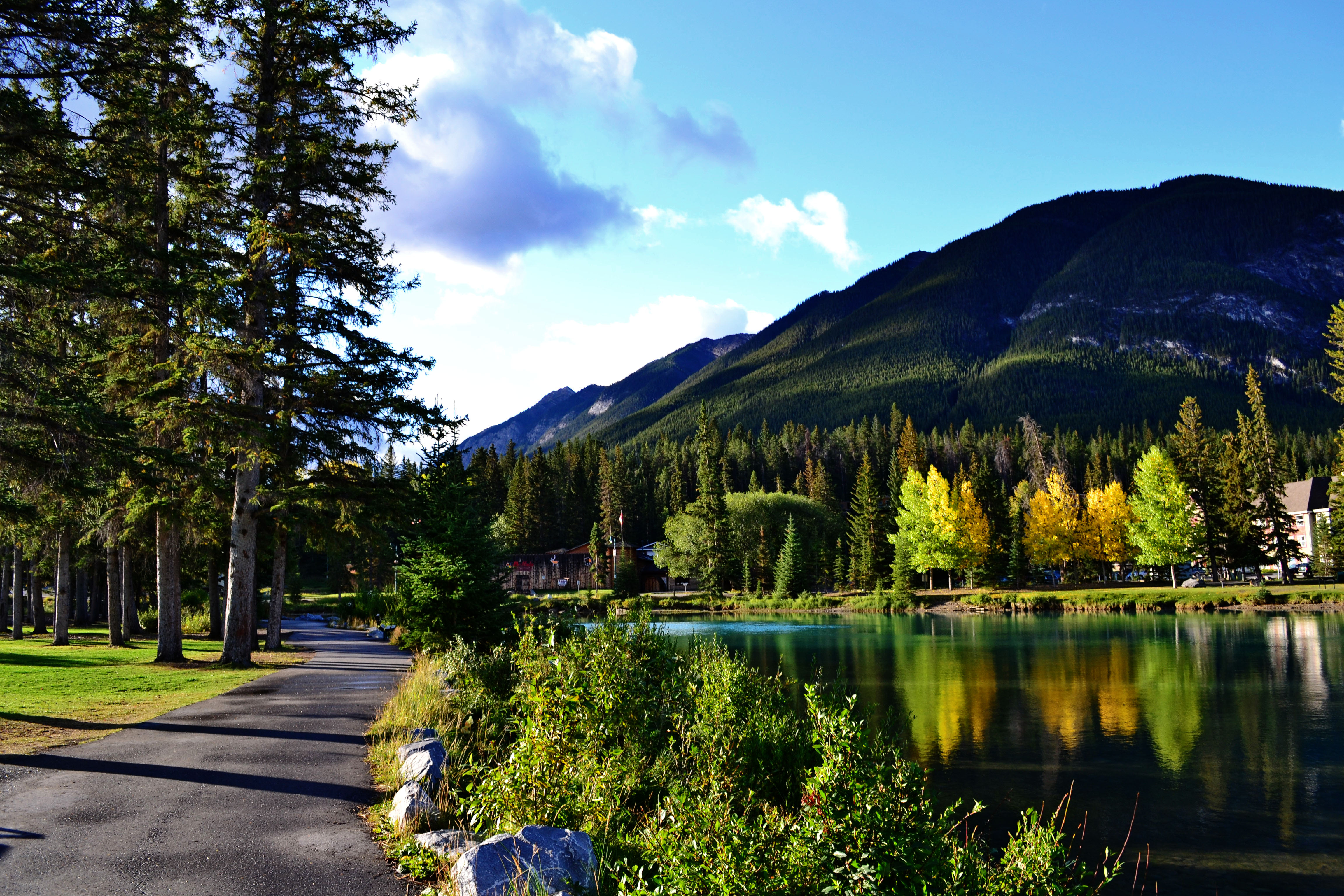 Summer in banff